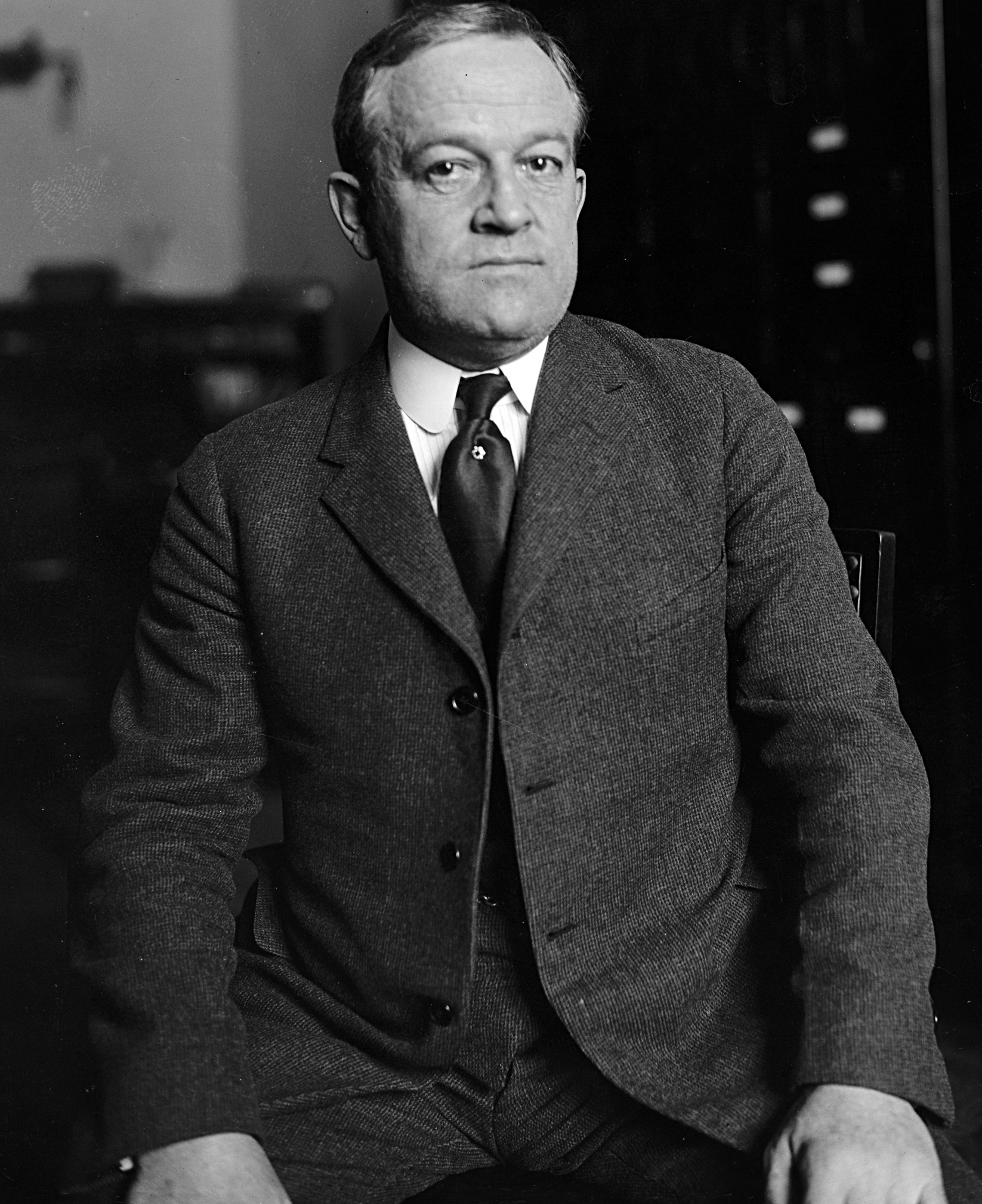 Herbert Wesley Cummings, US Representative from Pennsylvania